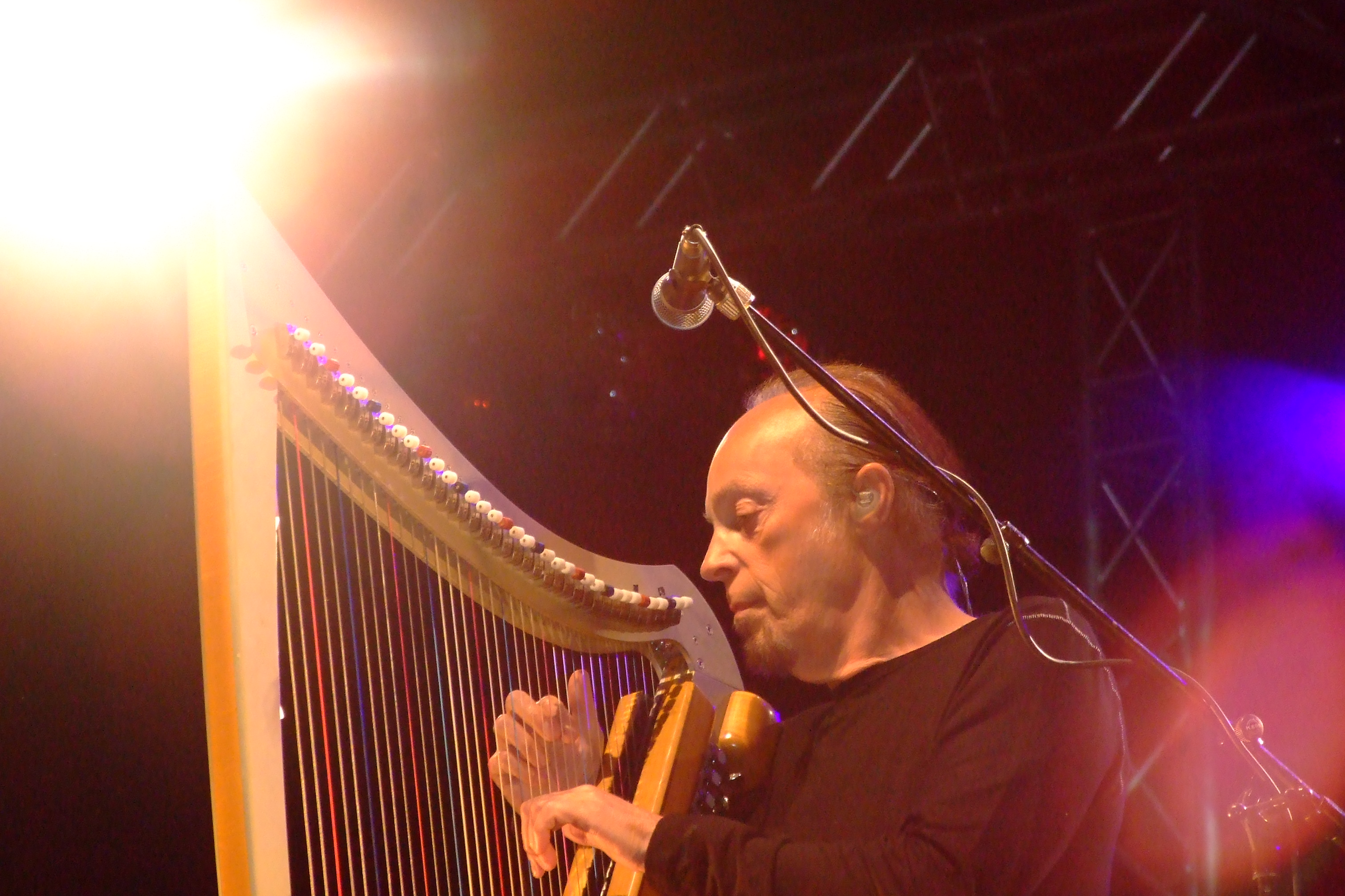 Alan Stivell live at the Bardentreffen in Nuremberg, Germany.